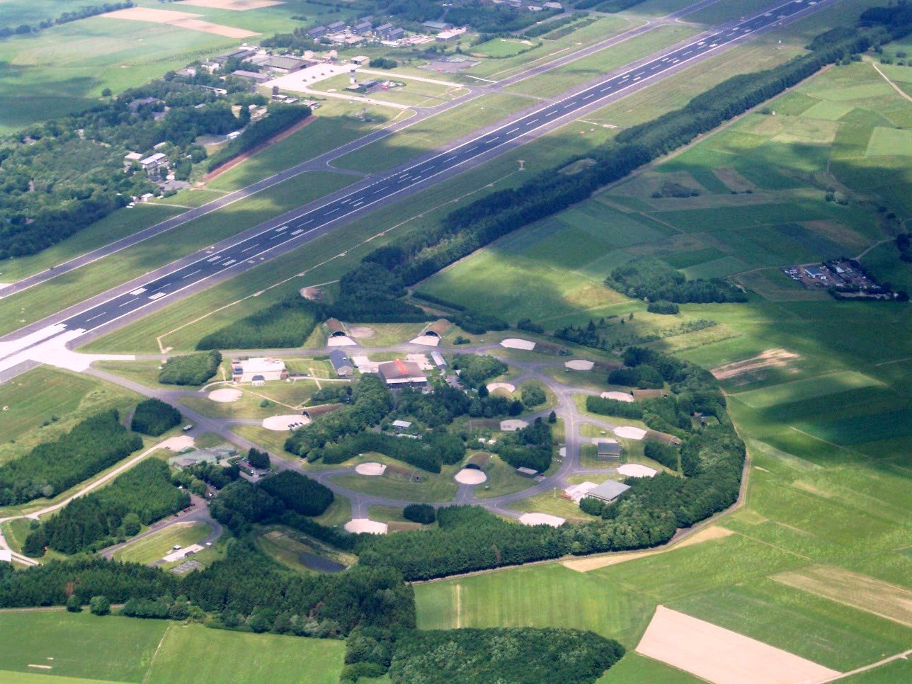 Aerial photograph of Büchel Air Base